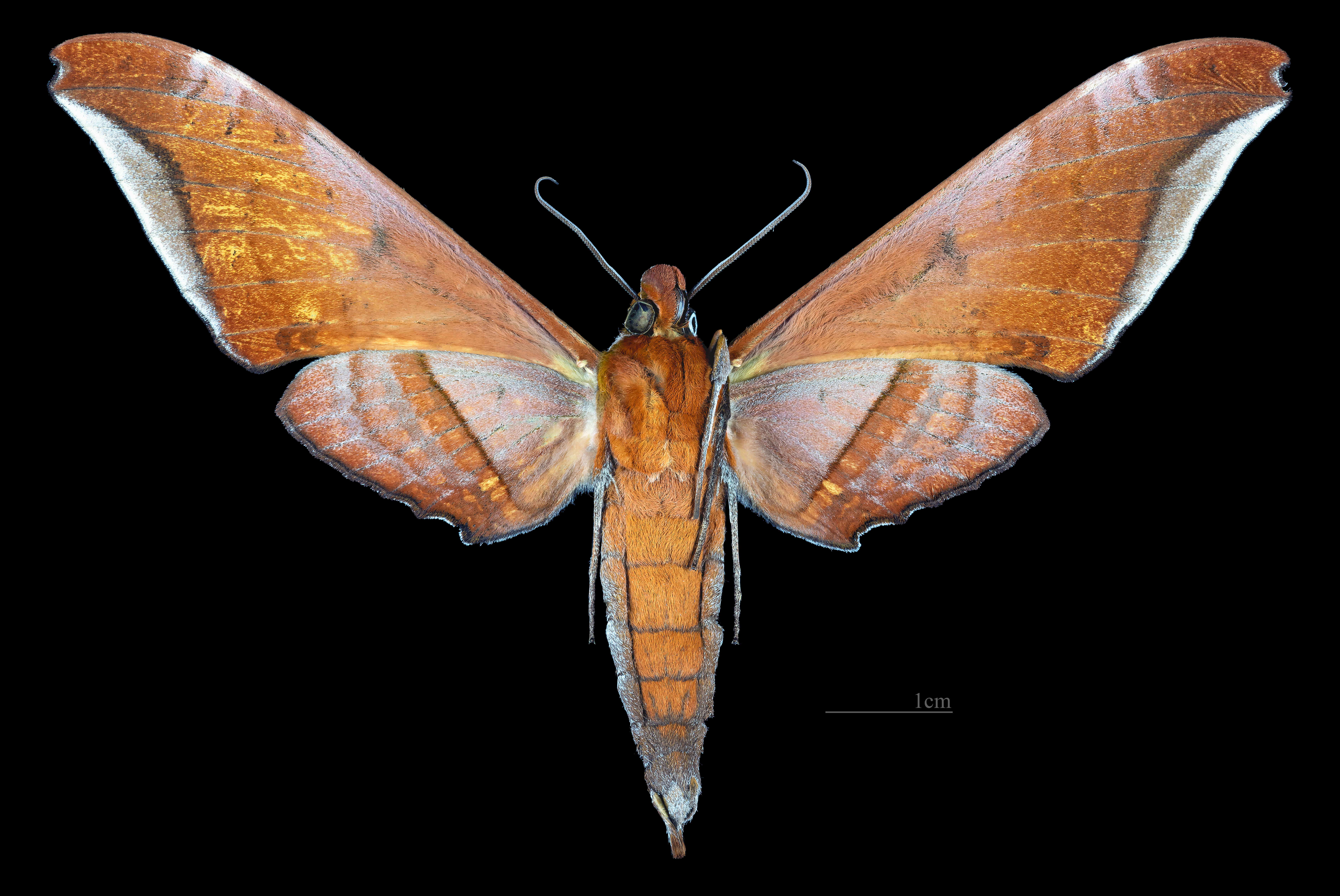 Adhemarius tigrina - △ Ventral side Collection of the Mathematician Laurent Schwartz